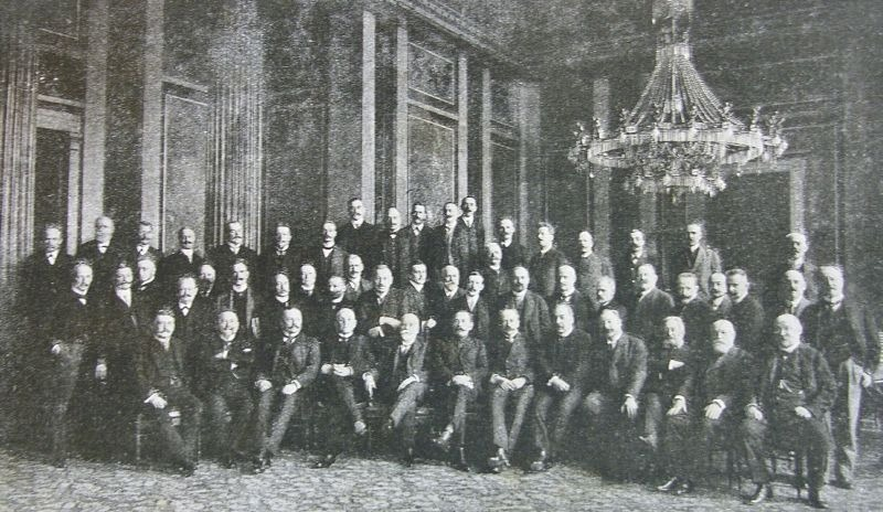 Polish representation in the Austro-Hungarian Parliament